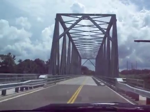 Kendall bridge, going to Dangriga Town, stann creek